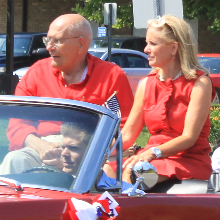 Congressman John Dingell and wife Debbie in the 2011 Ypsilanti Independence Day Parade, July 4, Michigan Avenue, downtown Ypsilanti, Michigan